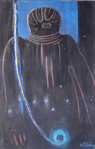 A photo of "The Great Martian God" (frescs) by Vladimir Tomilovsky